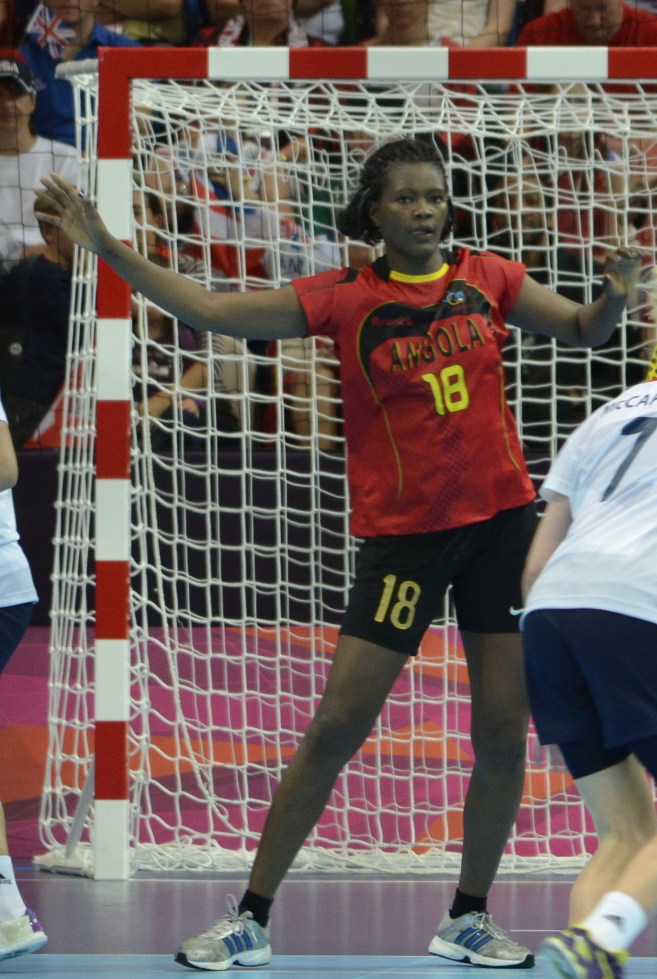 Marcelina Kiala from Angola team at the 2012 Summer Olympics women handball tournament